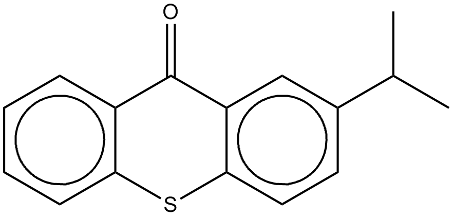 Chemical structure of isopropyl thioxanthone